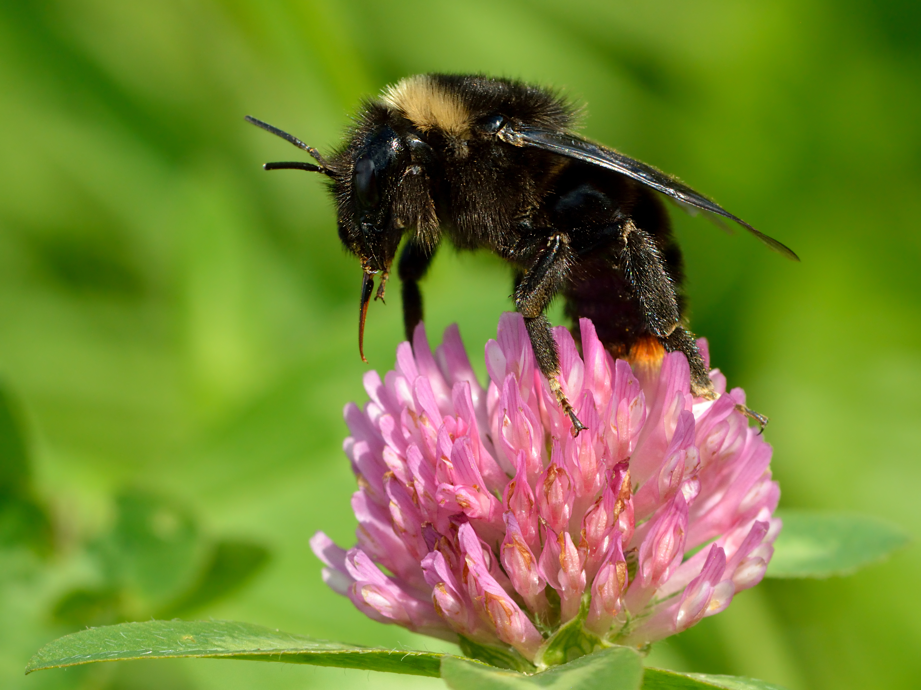 Female red-tailed cuckoo bumblebee (Bombus rupestris) on the red clover (Trifolium pratense). Keila, Northwestern Estonia.